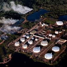 Complejo petrolero Caño Limón.